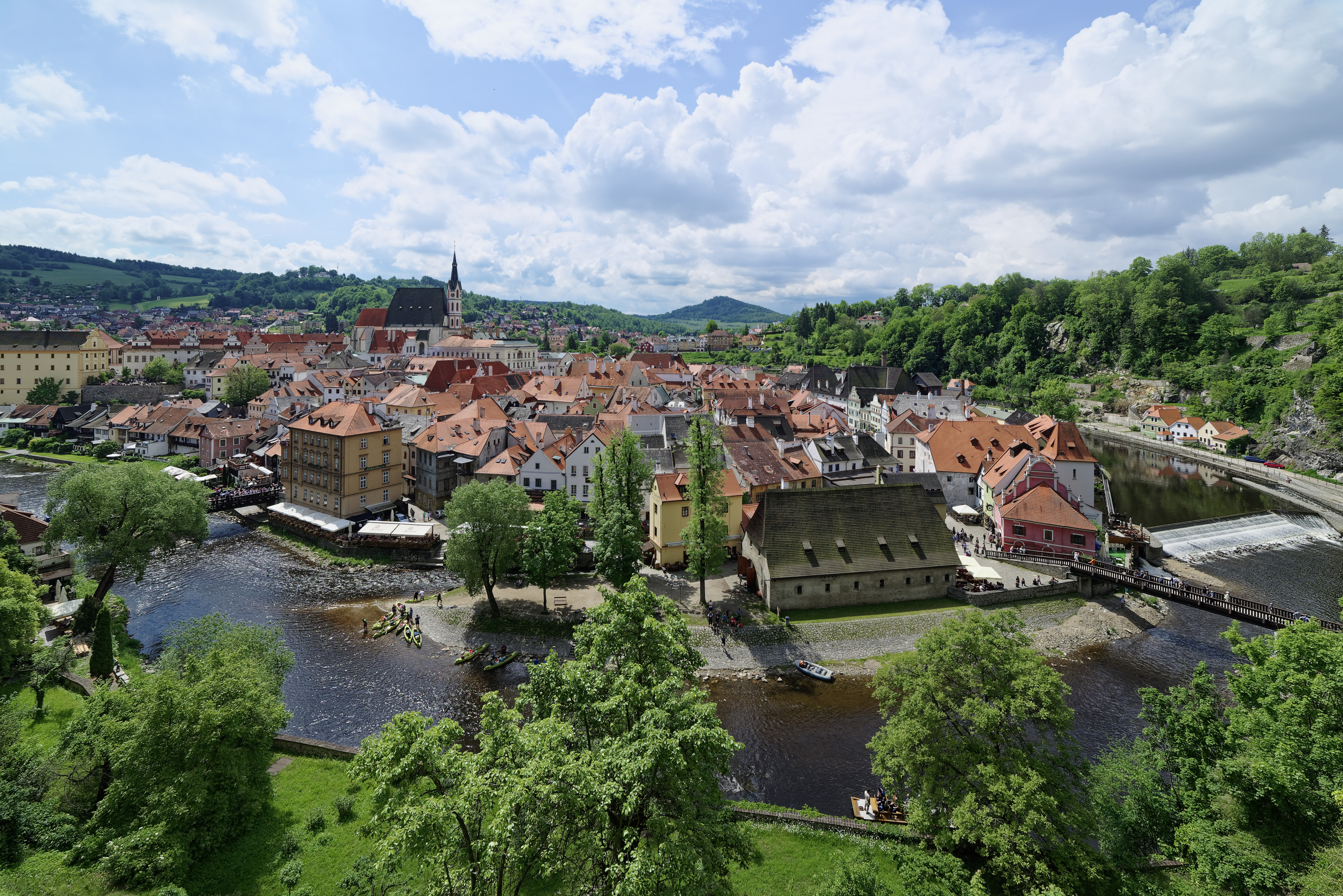 The picture shows the historic centre of Český Krumlov within the loop of the river Vltava